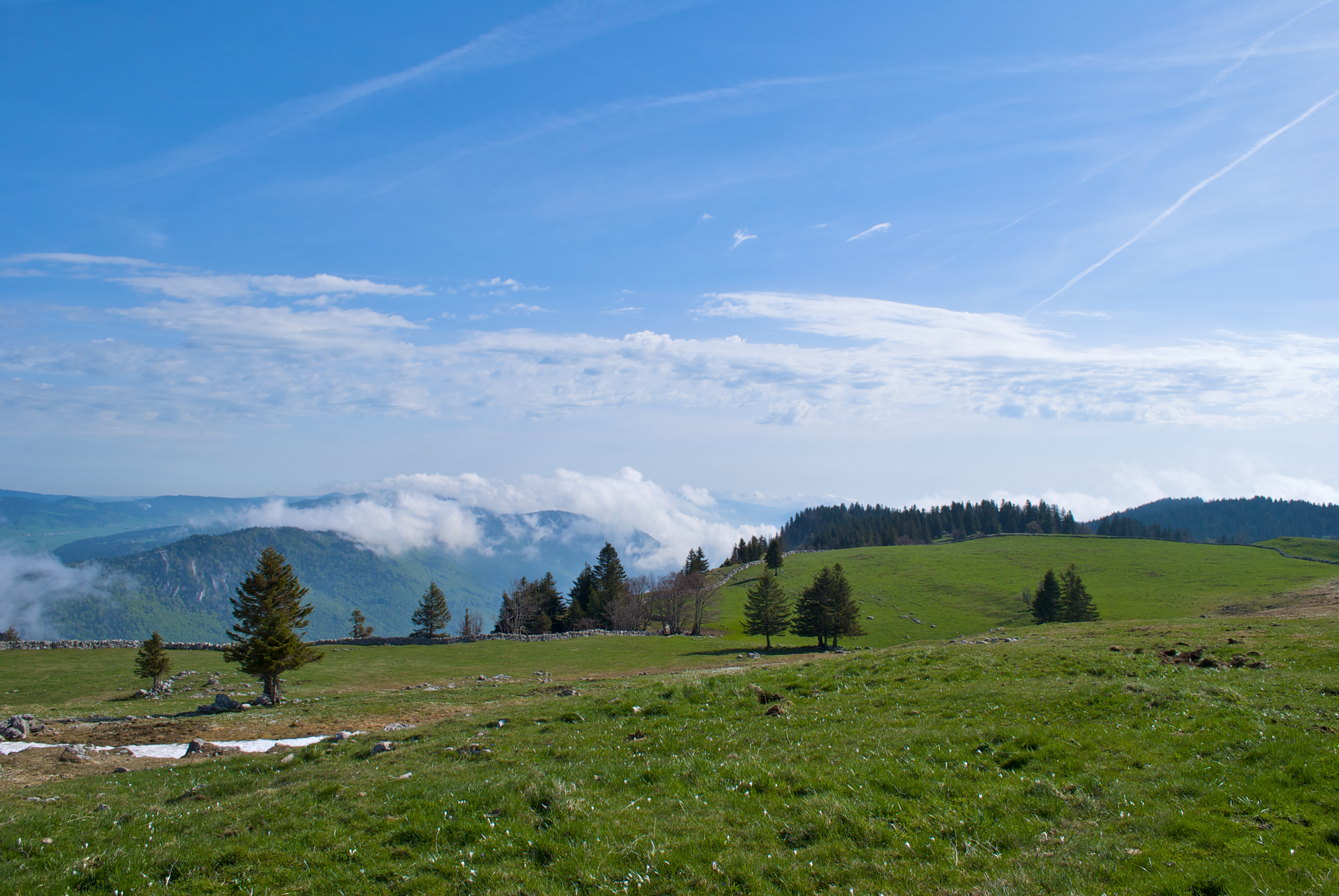 Spring view of the top of the creux-du-van